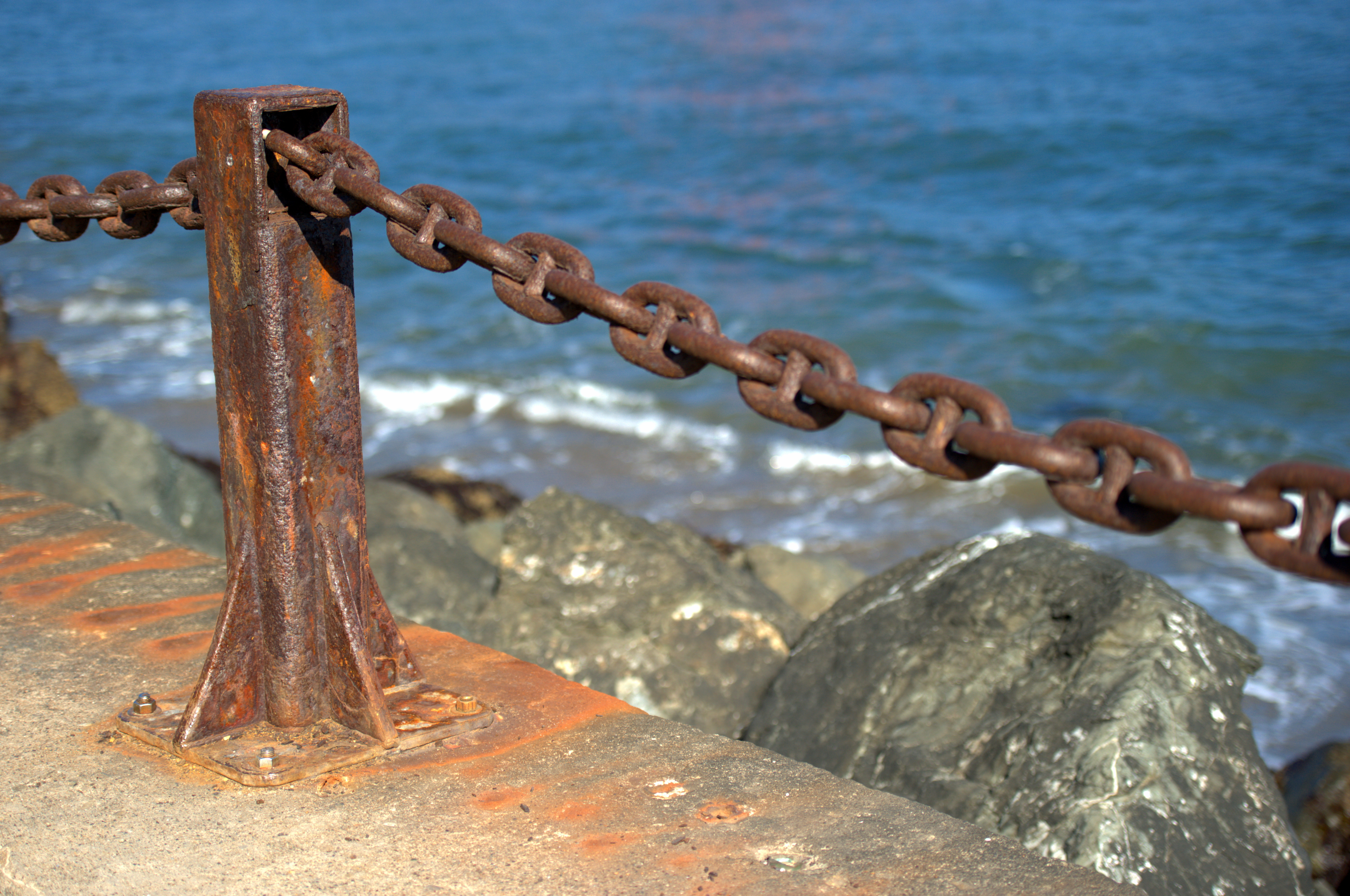 Safety chain railing on the Bay in the Presidio, San Francisco, California